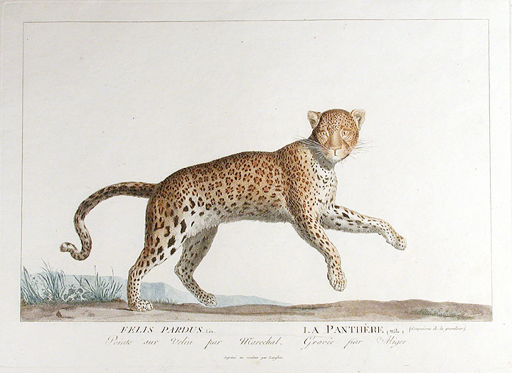 "Felis Pardus / La Parthère (Mâle)". Plate by Simon Charles Miger after Nicolas Maréchal (1753-1803) from "La Ménagerie du Muséum national d'histoire naturelle" by Bernard-Germain-Étienne de Lacépède, Georges Cuvier & Étienne Geoffroy Saint-Hilaire (1804).